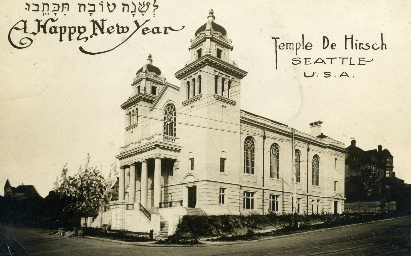 Jewish New Year's Card circa 1908, depicting Seattle's old Temple de Hirsch (demolished 1993; only part of the façade remains)